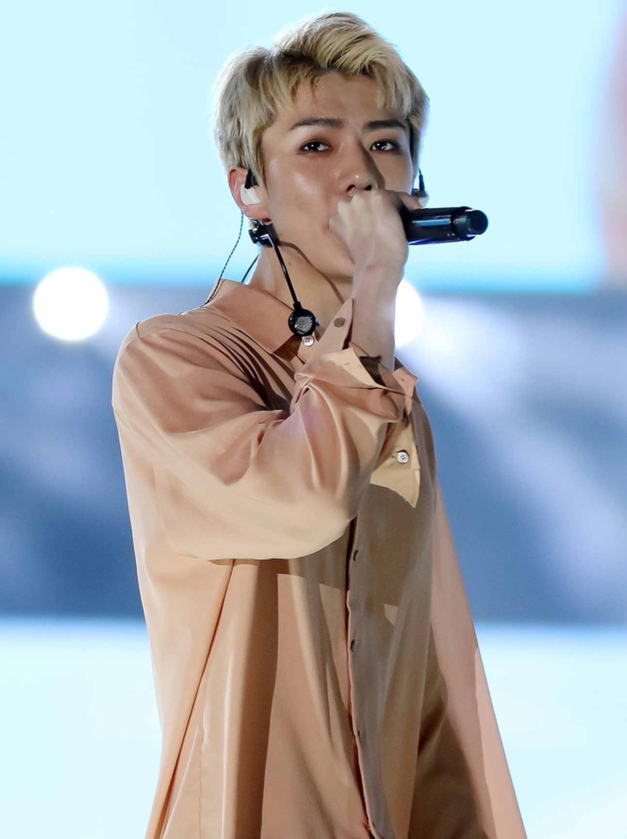 Sehun at Lotte Family Festival on October 22, 2016.